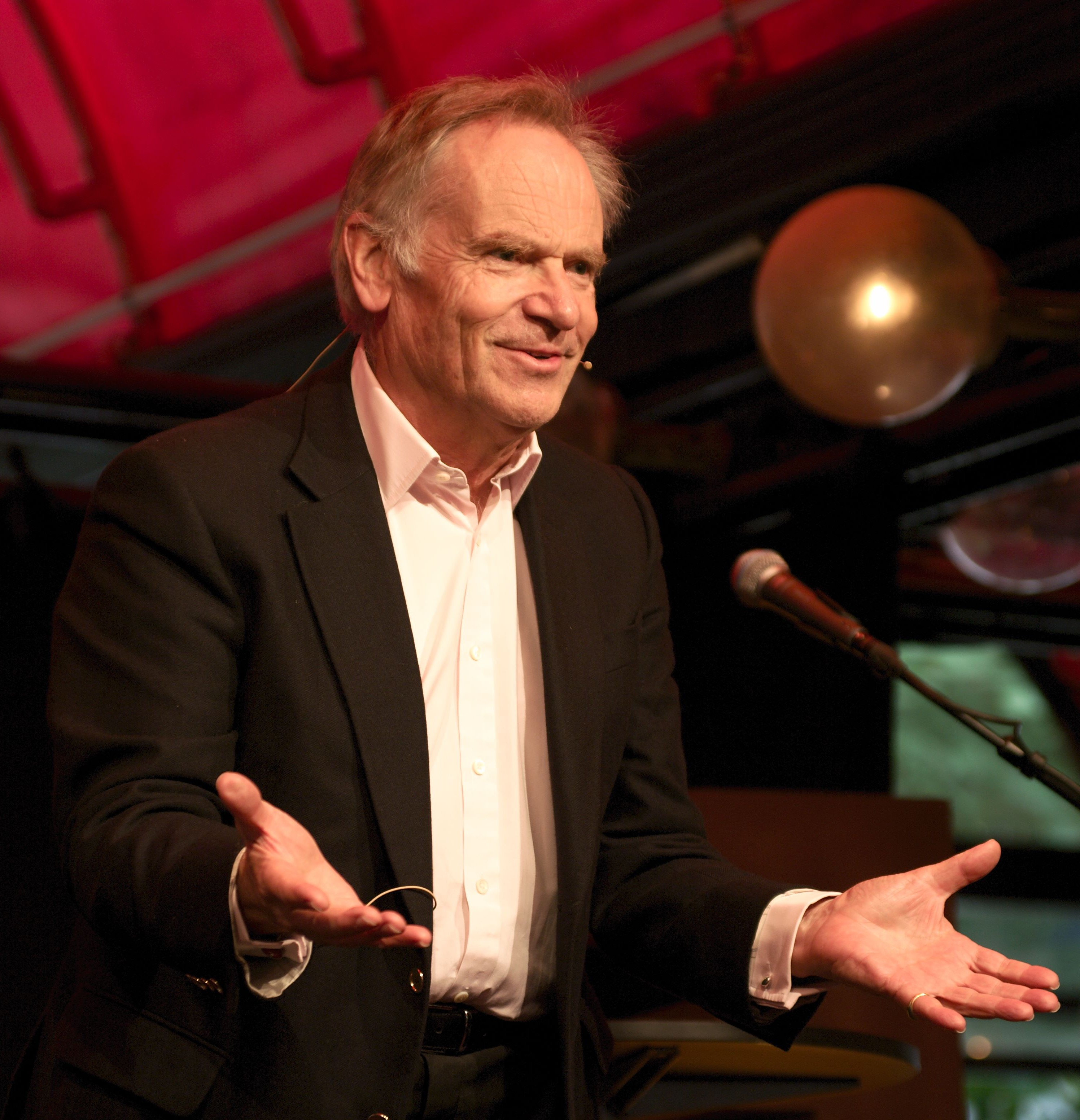 Jeffrey Archer at Oslo bokfestival.